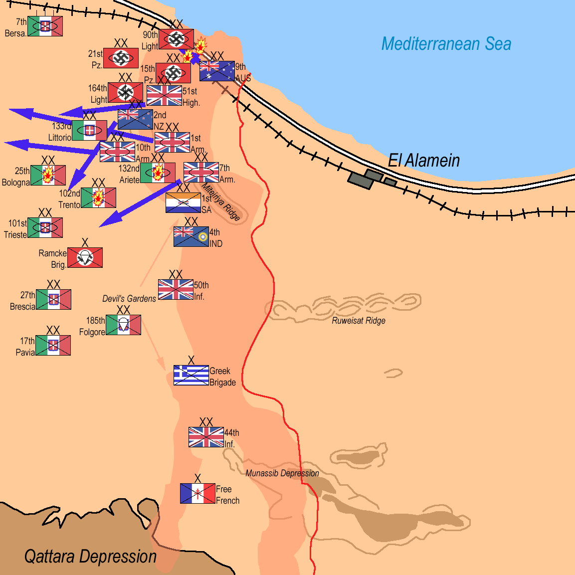 Second Battle of El Alamein: 9th Australian, 2nd New Zealand, 1st Armoured, 7th Armoured and 10th Armoured attack: 7am November 4th, 1942. 1st Armoured and 10th Armoured break through and drive towards the coast. 2nd New Zealand Division moves toward Fuka destroying the remnants of Bologna and Trento Divisions on its way. 7th Armoured Divisions encircles Ariete Division, which is destroyed. Axis forces flee.